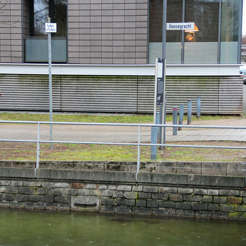 The Hansegracht in Duisburg (Germany)